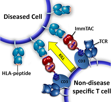 ImmTAC mechanism of action against a diseased cell